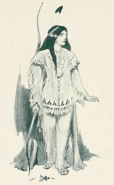 Tiger Lily, the Indian girl